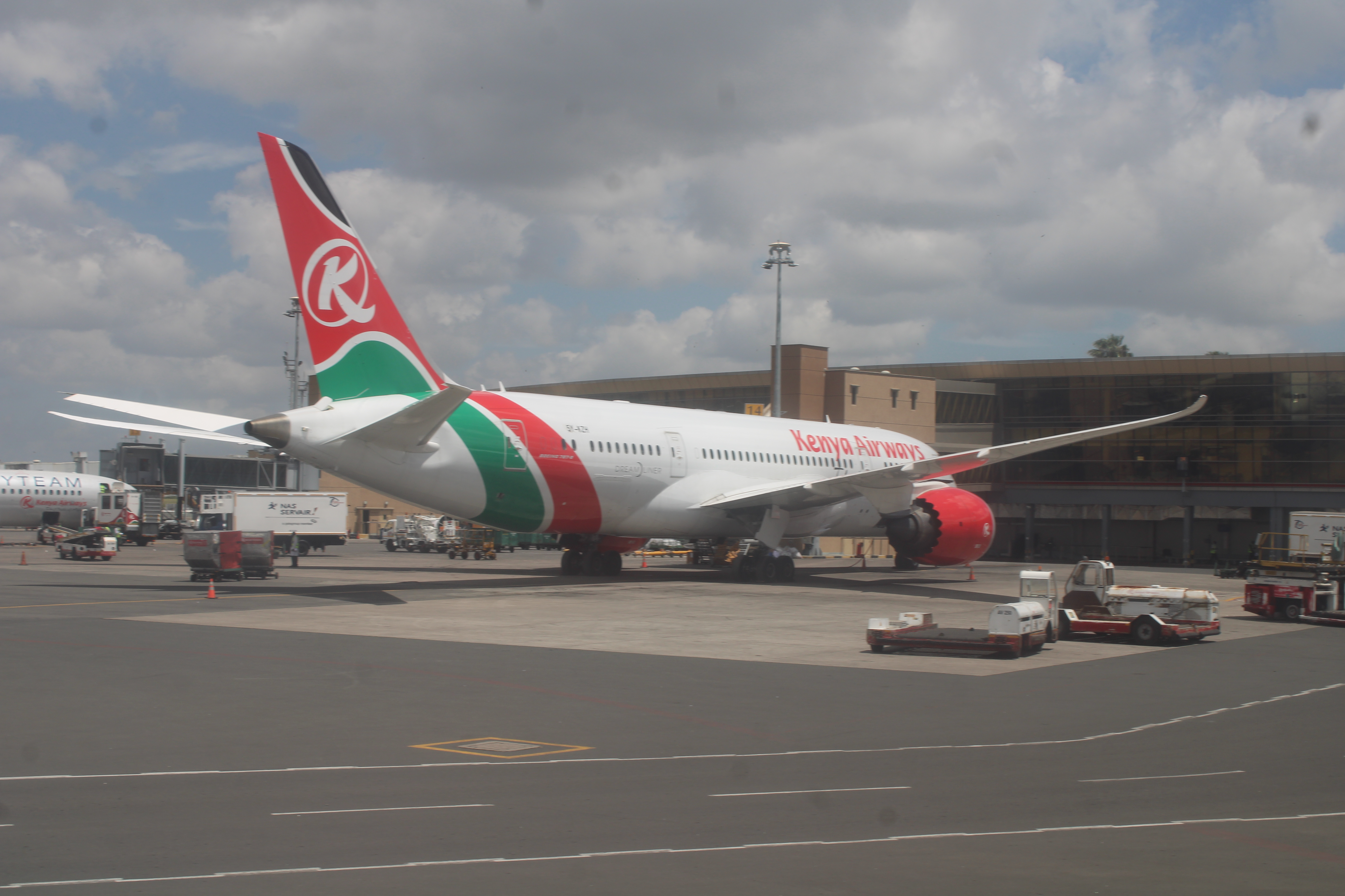 A Kenya Airways airplane parked at Jomo Kenyatta International in Nairobi This is an image with the theme "Africa on the Move or Transport" from: Kenya